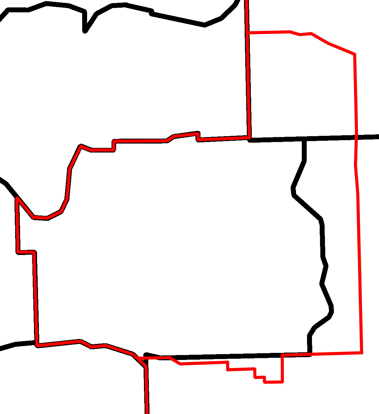 A map of Alberta provincial electoral districts, effective 2010, in black, overlaid with the boundaries of the City of Edmonton, Urban Service Area of Sherwood Park, and Strathcona County in red.